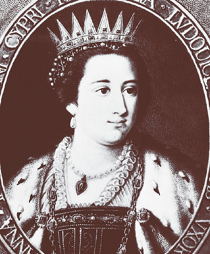 Anne of Lusignan (1418-1462)